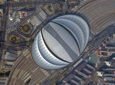 satellite image of Beijing South Railway Station on 18 February 2018.